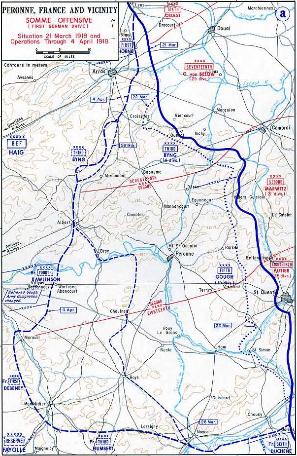 Map showing extent of German Somme offensive : Operation Michael : 21 March - 4 April 1918.